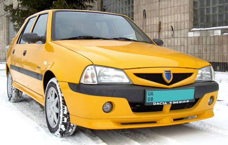 Dacia Solenza in winter time